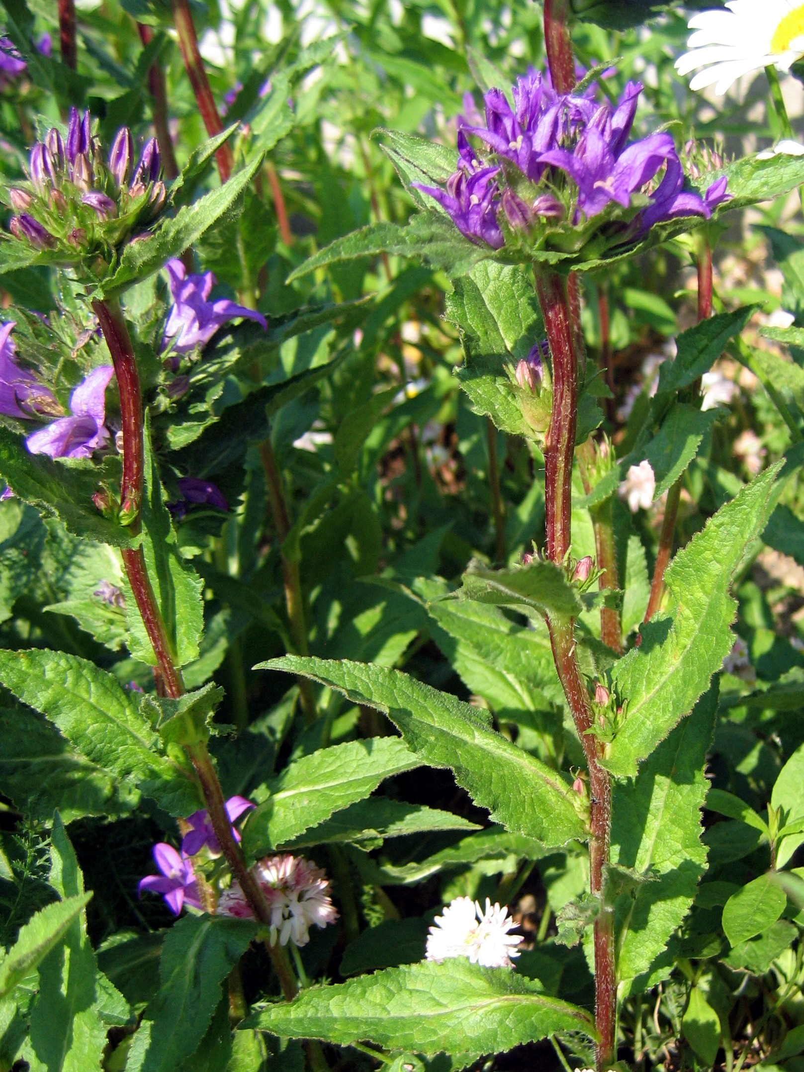 Dane's blood (Campanula glomerata) plants flowering, cultivated, Wrocław, Poland.